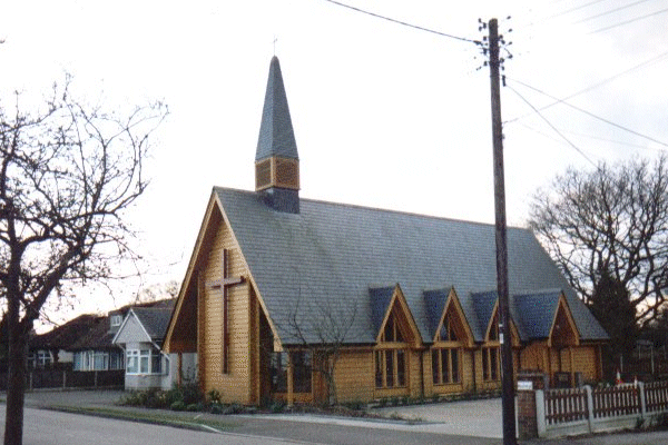 A picture of the current St Francis church, taken by myself in April 2003, Scanned and trimmed November 2005.